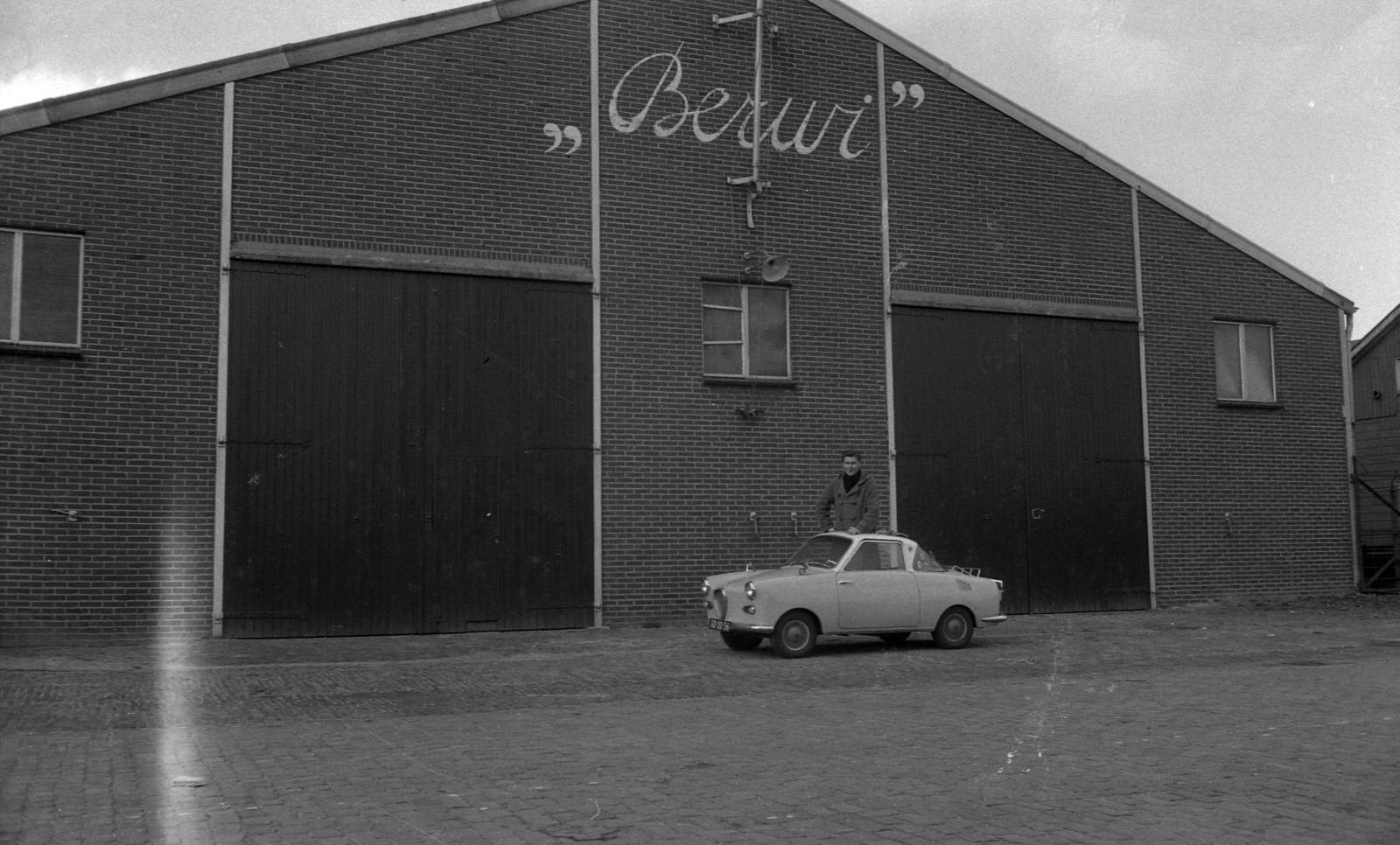 De Goggomobil bij de fabriek van Berwi (Bergen Winschoten: Van Bergen's brandspuiten- en carrosseriefabriek), Industrieweg 8, Winschoten, 1958 Fotocollectie Wim Dussel, collectie IISG